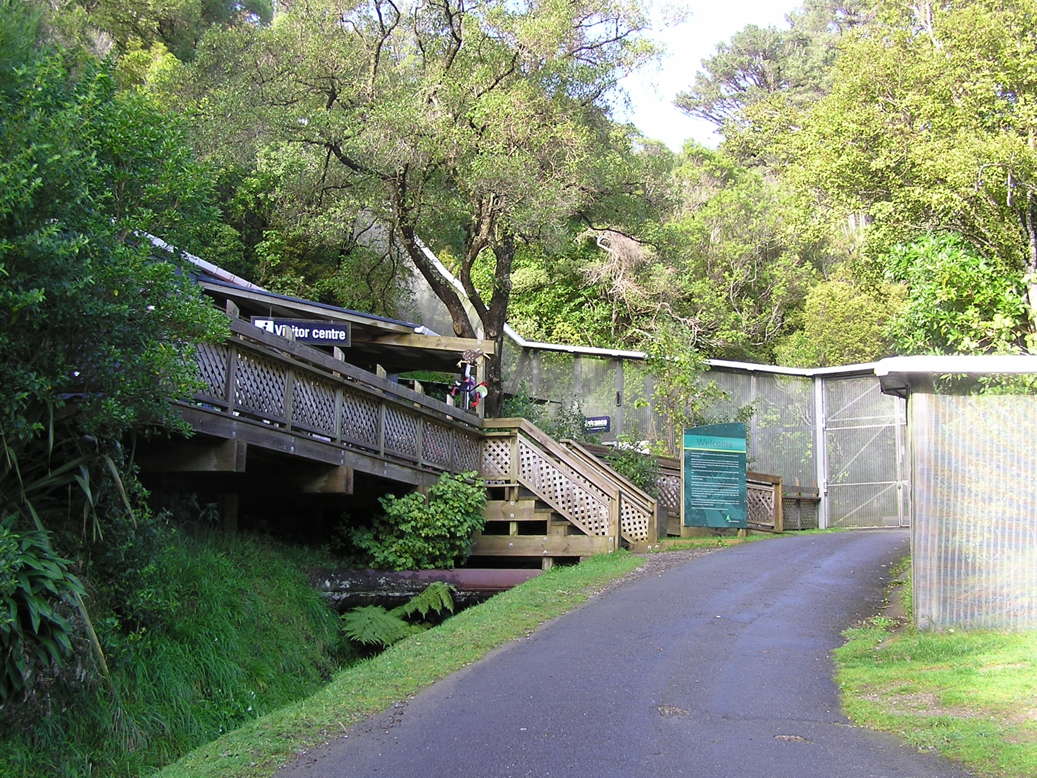 Karori Wildlife Sanctuary original entrance and visitor centre (replaced in 2008), Wellington, New Zealand Predator proof fence, mesh dimensions